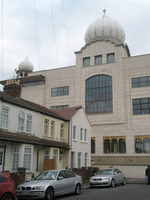 A surprising sight in Hammond Road Not for locals, but for me making my first visit in nearly a quarter of a century- definitely.